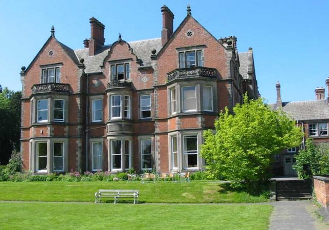 Tara Buddhist Centre - Ashe Hall Established by meditation Master Venerable Geshe Kelsang Gyatso in Derbyshire in 1983 Tara Centre is a Kadampa Buddhist college and meditation centre, nestled in 38 acres of lawns and woods at Ashe Hall. There is also a fine tea room where refreshment can be enjoyed overlooking the lawns after a hard day picking off Geograph squares.